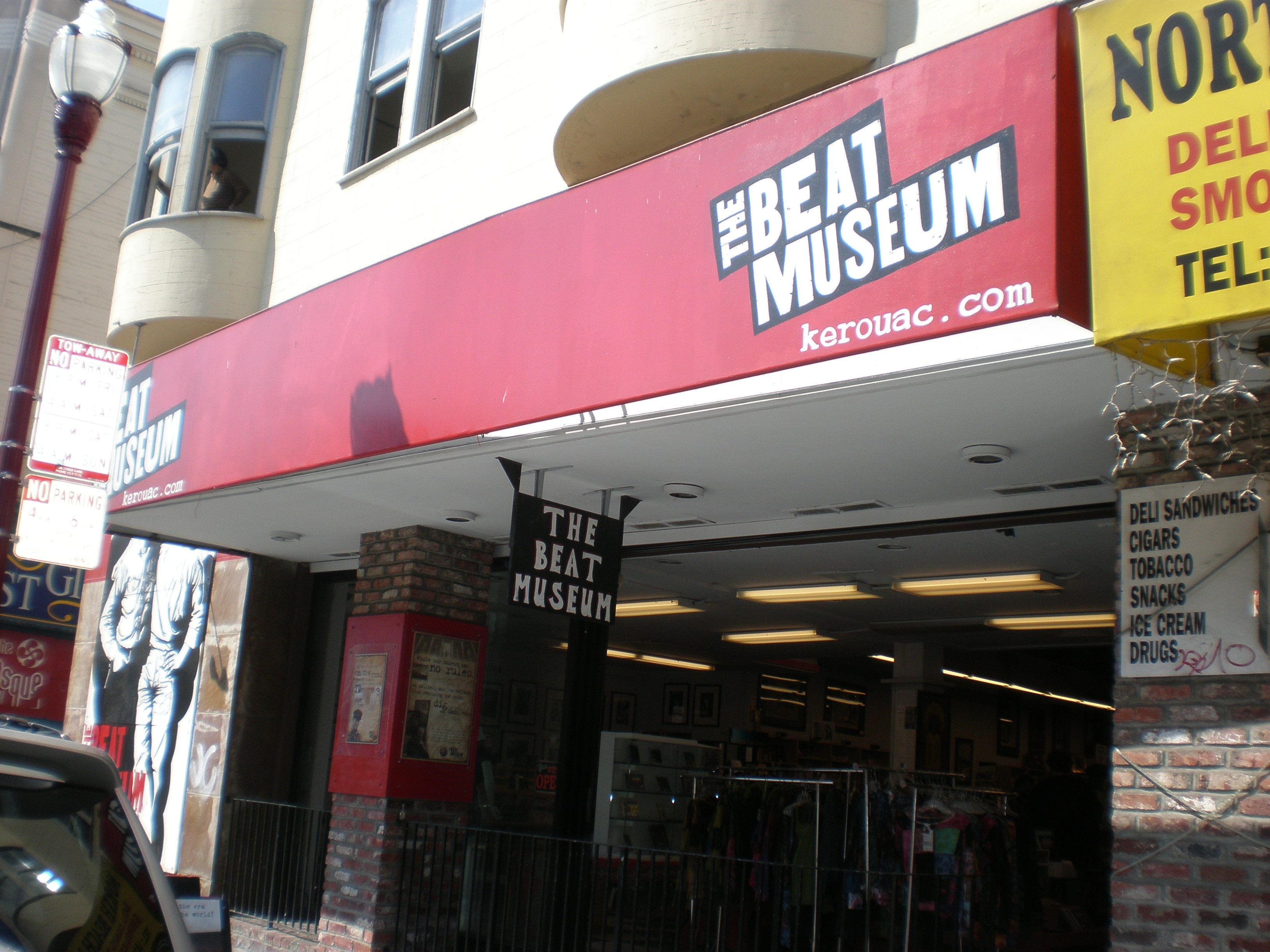 The Beat Museum on Broadway Street in San Francisco.